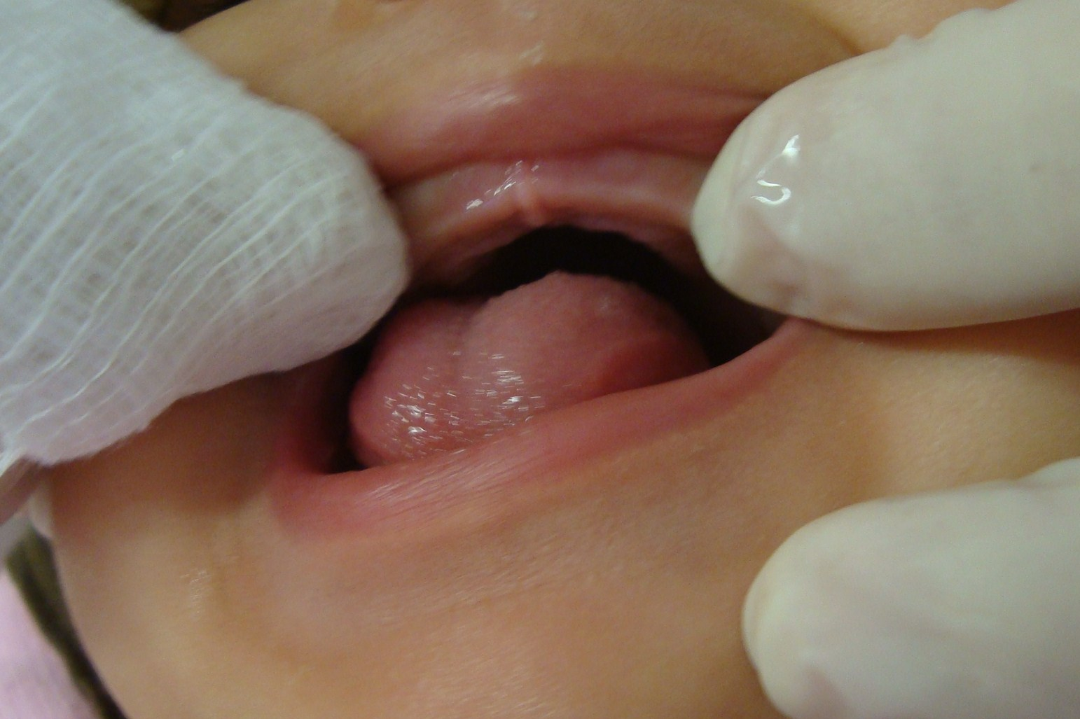 You’re not alone if you want to know how to get rid of bad breath permanently. This is one of the most embarrassing problems many people around the world are dealing with. Oral hygiene of an edentulous baby's mouth using gauze and hydrogen peroxide.